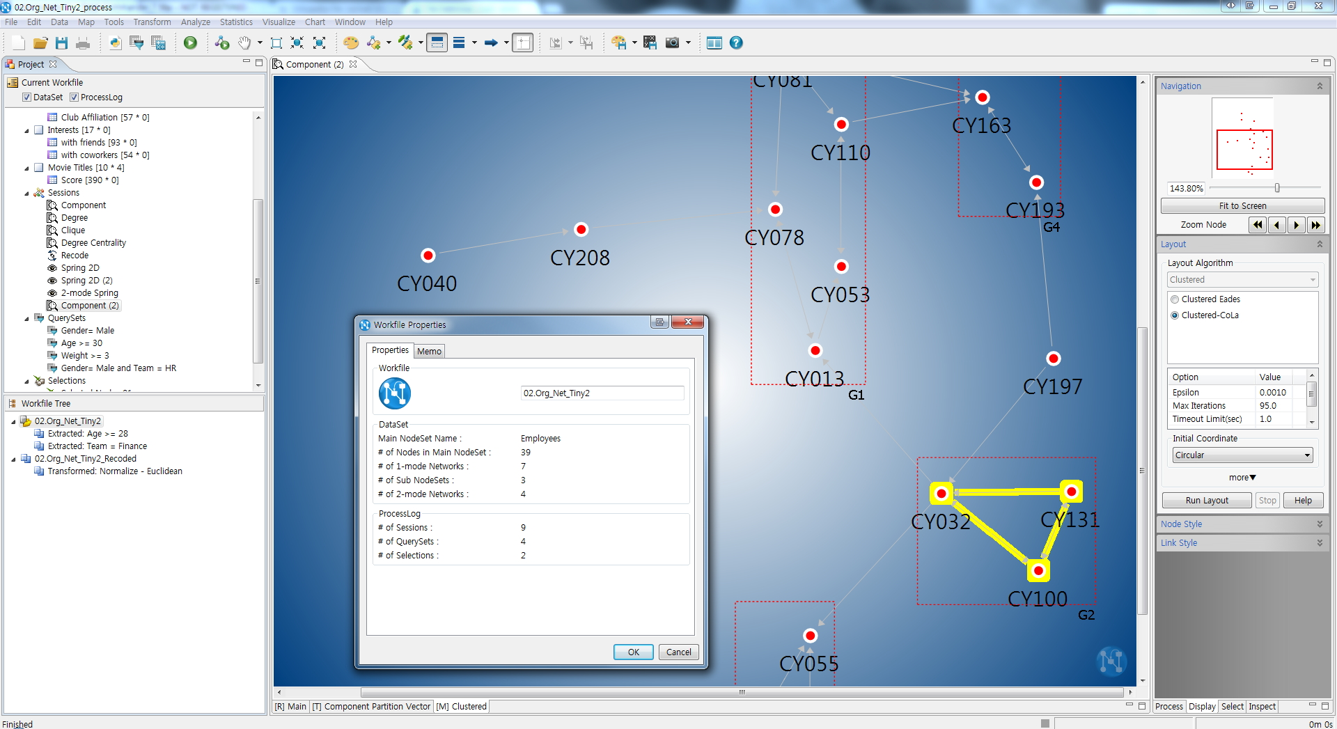 This image file is captured by Cyram Inc. who created the product netminer. This image file shows the main window of netminer.